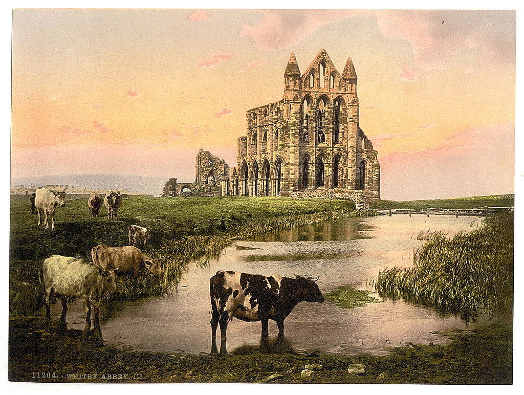 Whitby, the abbey, III., Yorkshire, England